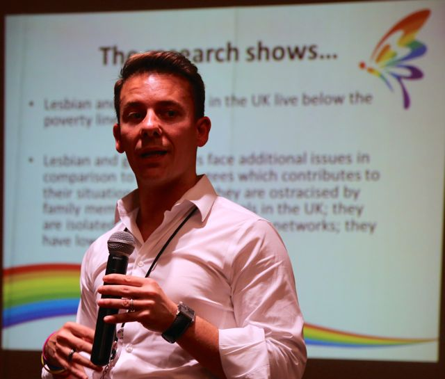 Sebastian Rocca speaking at ILGA World Conference in Mexico City, 29 October 2014.